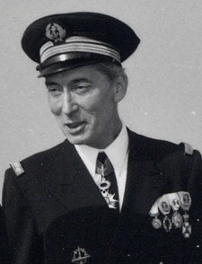 Georges Houot, Commander of FNRS III